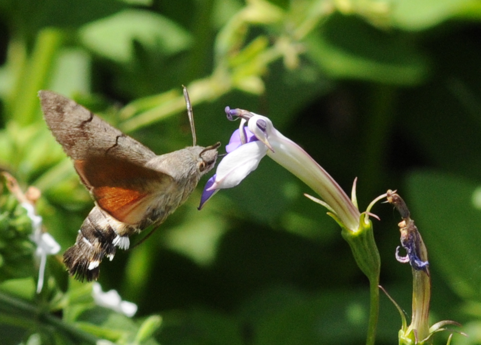 This photograph was taken with a Nikon D300 Moro sphinx ou Sphinx colibri ou Sphinx du caille-lait.